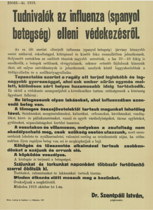 Spanish flu poster. Published on the 1st of October, 1918. Signed by Dr. Szentpáli István.